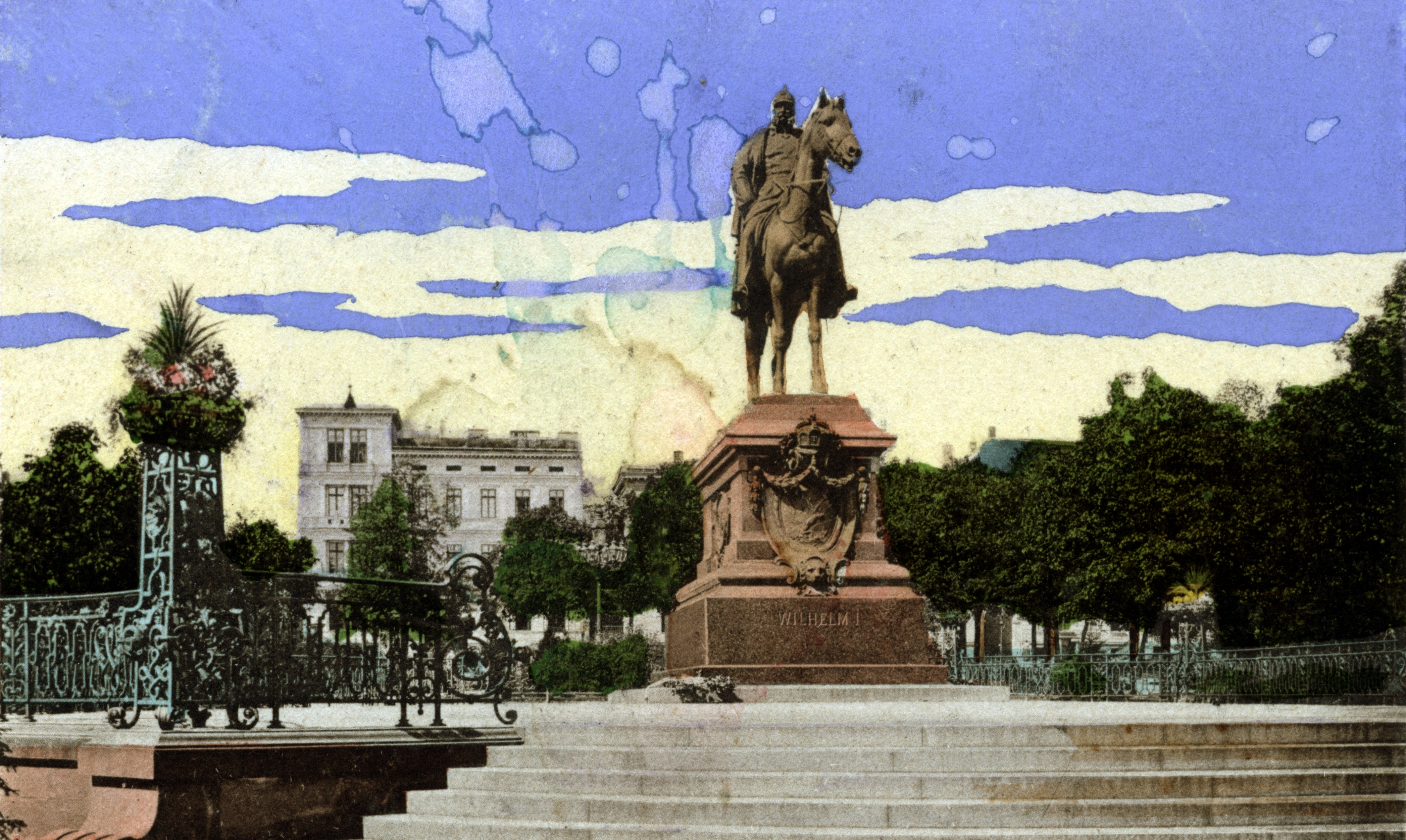 Frankfurt (Oder), Wilhelm I of Germany memorial. Picture postcard from 1909.